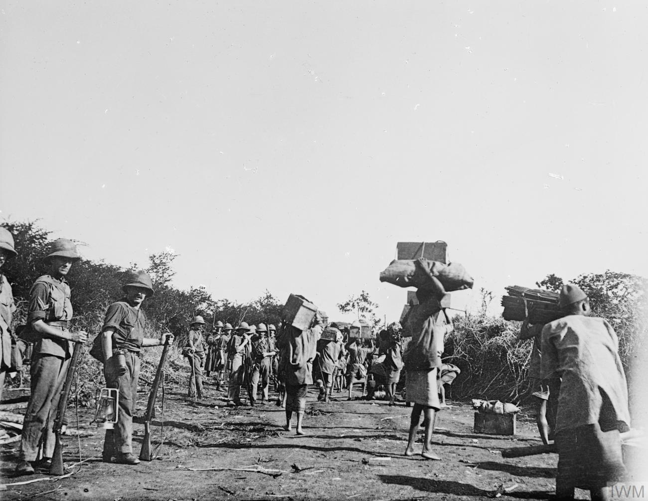 Ministry of Information First World War Official Collection German East African Campaign. No. 10 Workshop Unit moving forward on Line of Communication in Portuguese Nyasaland - about to trek a small part of their journey through a swamp, transport other than porters being impossible.